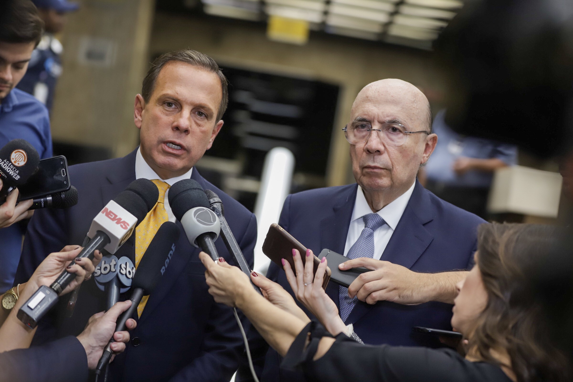 O governador do Estado de São Paulo, João Dória, concede entrevista coletiva após reunião com o Ministro Paulo Guedes, Henrique Meirelles e Grupo Caoa. Data: 23/05/2019 Local: São Paulo- SP. Foto: Governo do Estado de São Paulo